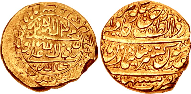 Suleiman II of Iran gold coin.